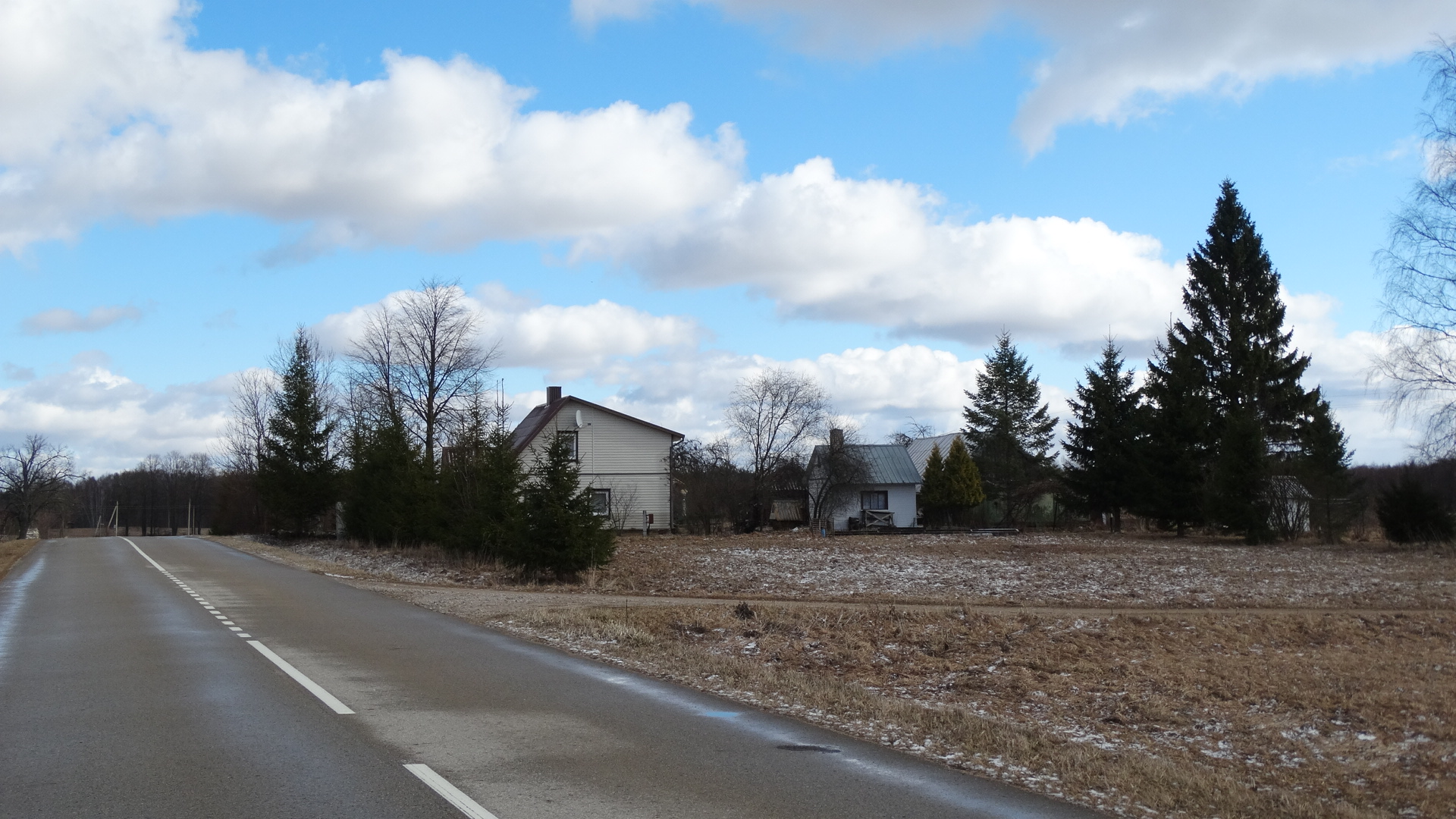 Mukuliai, Zarasai district, Lithuania